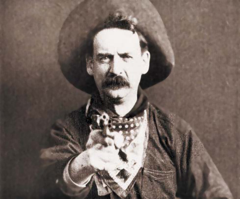 Screenshot from The Great Train Robbery (1903)